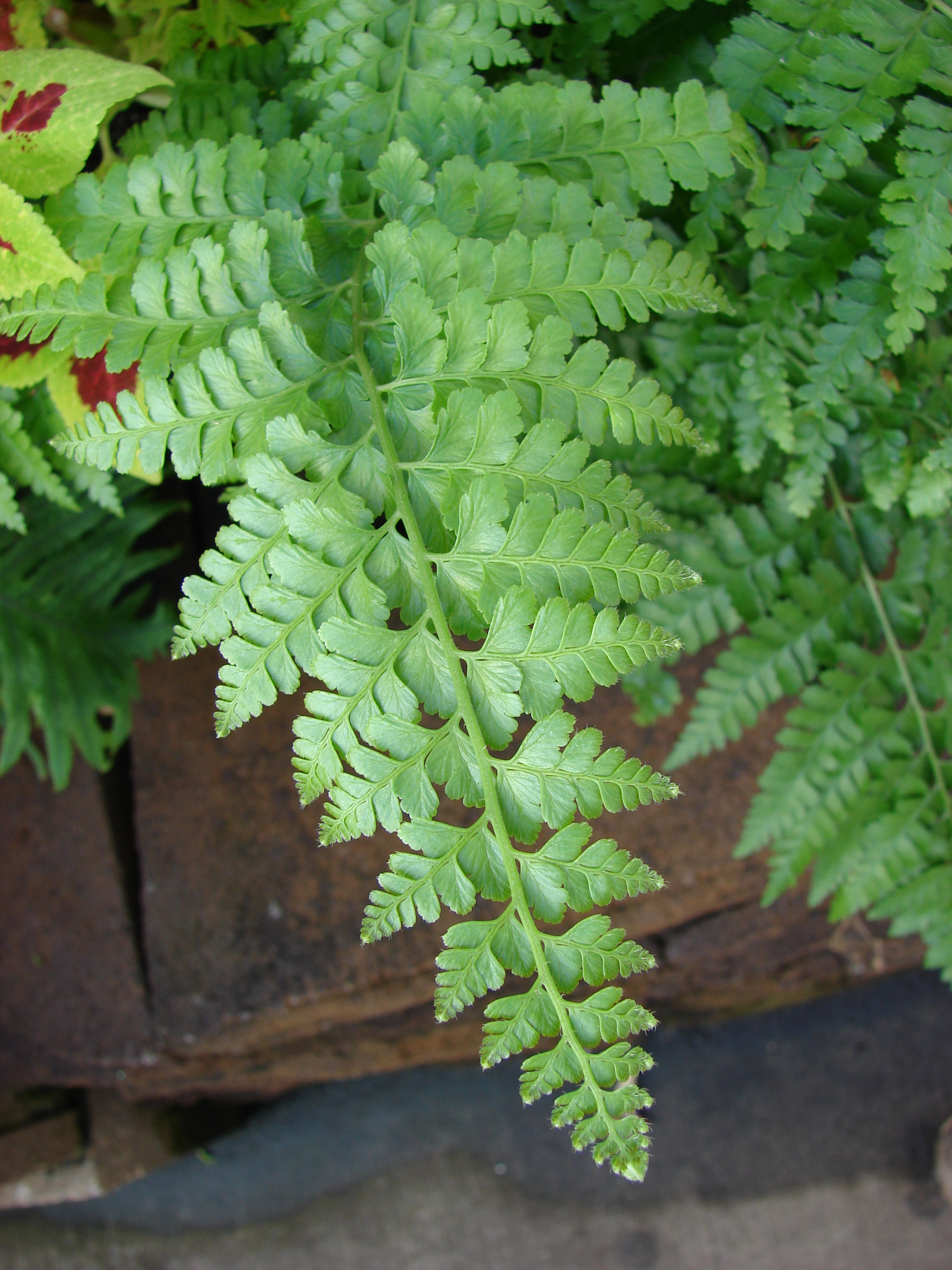 Microlepia strigosa (frond). Location: Maui, Lowes Garden Center Kahului